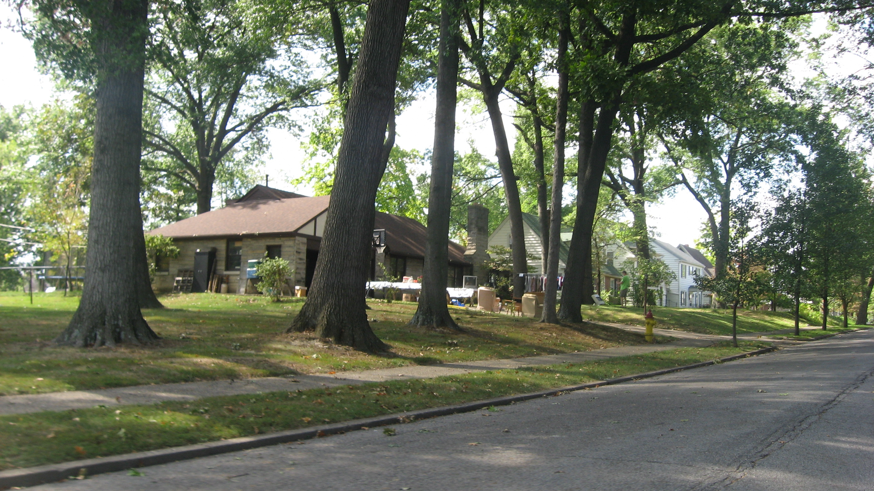 Houses on the southwestern side of Hedden Park in New Albany, Indiana, United States. From left to right, they are: 1647 Hedden Park: built 1951, ranch 1649 Hedden Park: built 1937, Colonial Revival architecture 1651 Hedden Park: built 1936, Colonial Revival architecture 1653 Hedden Park: built 1937, Colonial Revival architecture 1655 Hedden Park: built 1937, Tudor Revival architecture This block is part of the Hedden's Grove Historic District, a historic district that is listed on the National Register of Historic Places.